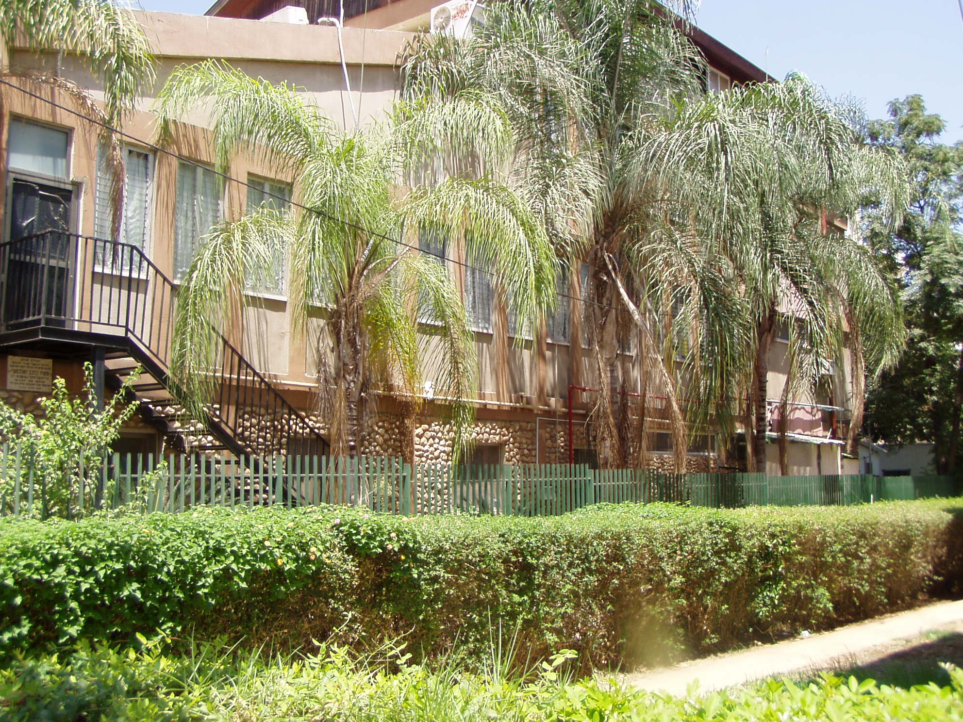 Or Israel Yeshiva Ktana (a Yeshiva for ages 14-17) in Petah Tikva.